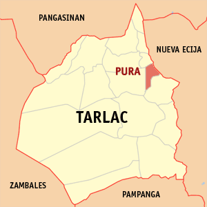 Map of Tarlac showing the location of Pura